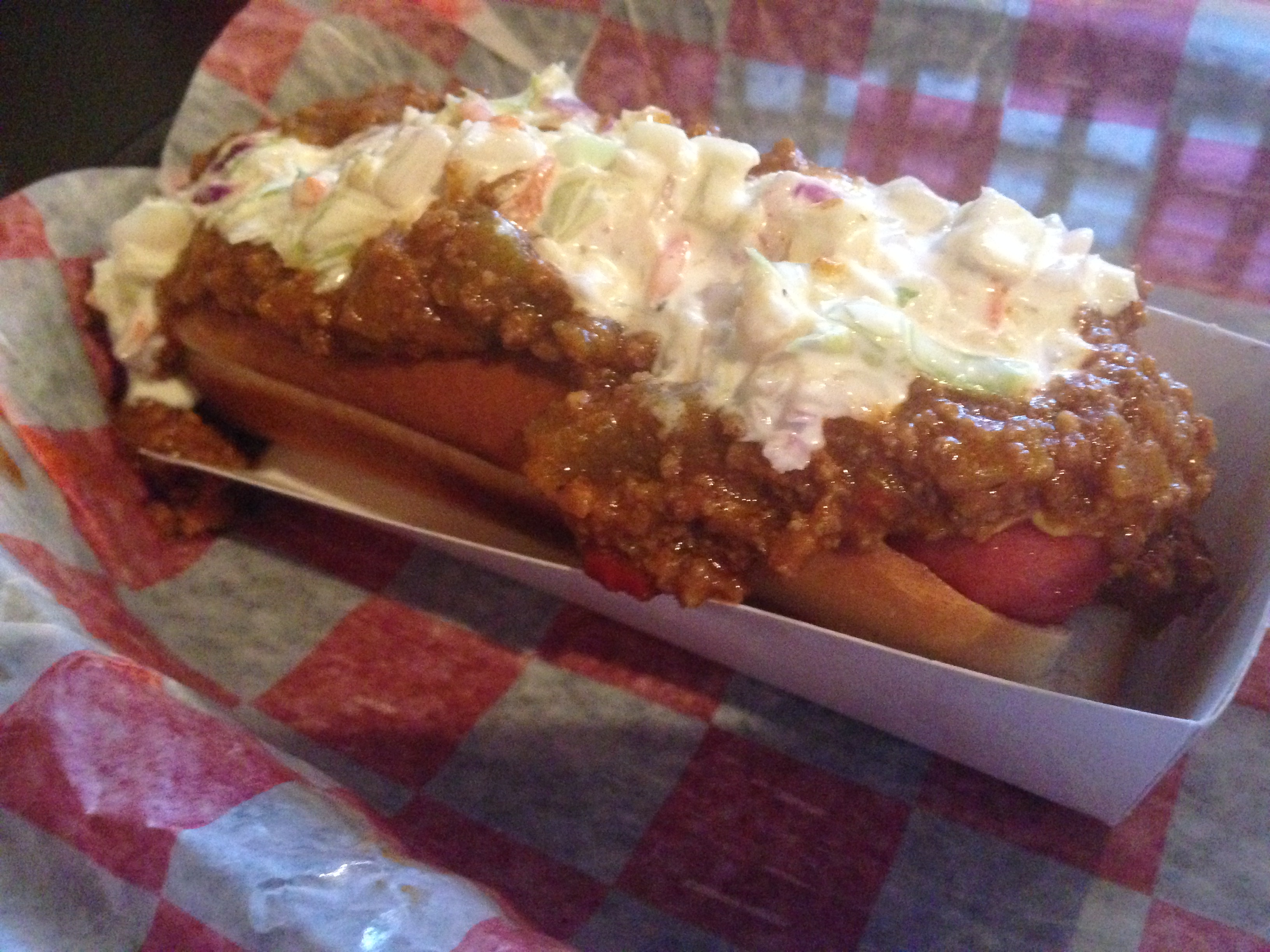 Chili cole slaw hog dog